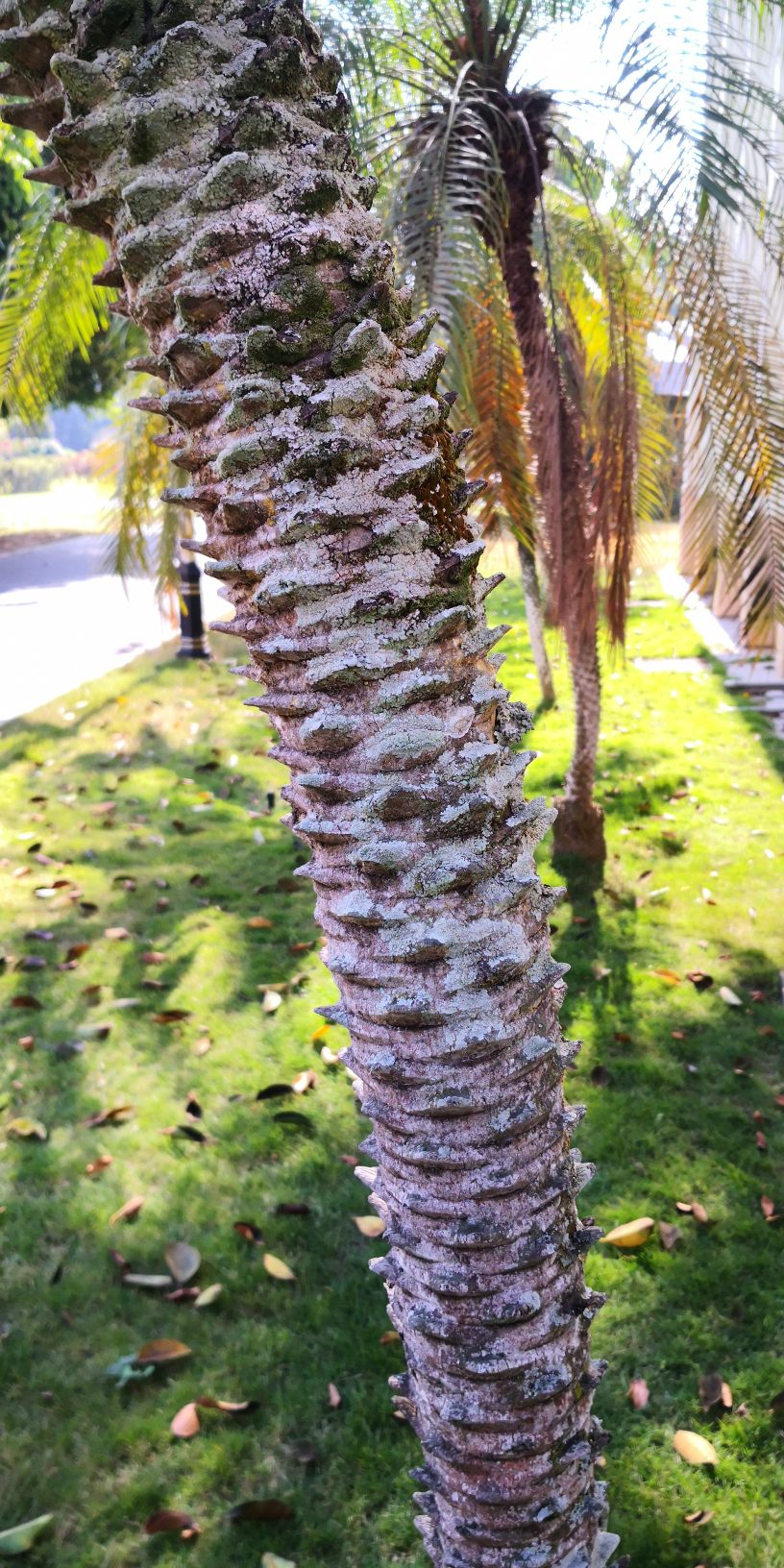 Phoenix loureiroi – Trunk. January 2020. Location: Nanyao Yuan, Jinghong, Xishuangbanna, Yunnan, SW China. 22,006, 100,788